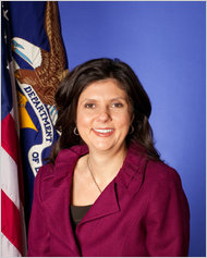 Official portrait of Chief Economist U.S. Department of Labor Betsey Stevenson